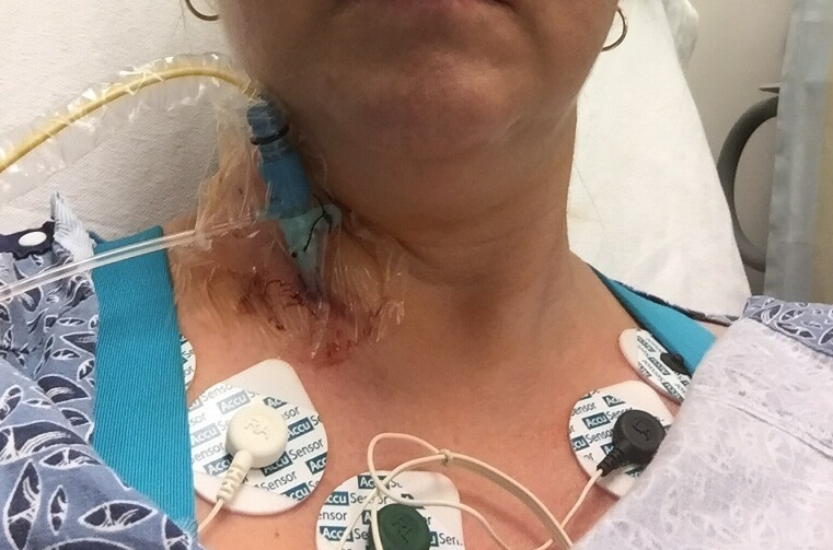 Radial artery catheterization insertion point of a female patient through the Superior vena cava. Other information Cropped from the original photograph to remove any identifying personal characteristics.